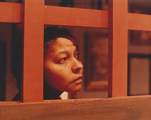 Fátima Amorim como "Tiana" em "A Escada de Jacó", melhor espetáculo do XV Festival Internacional de Teatro de São José do Rio Preto, em 1995.